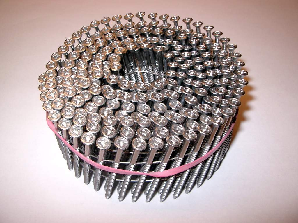 Nailscrew wire bound with Phillips screw drive head (PH).